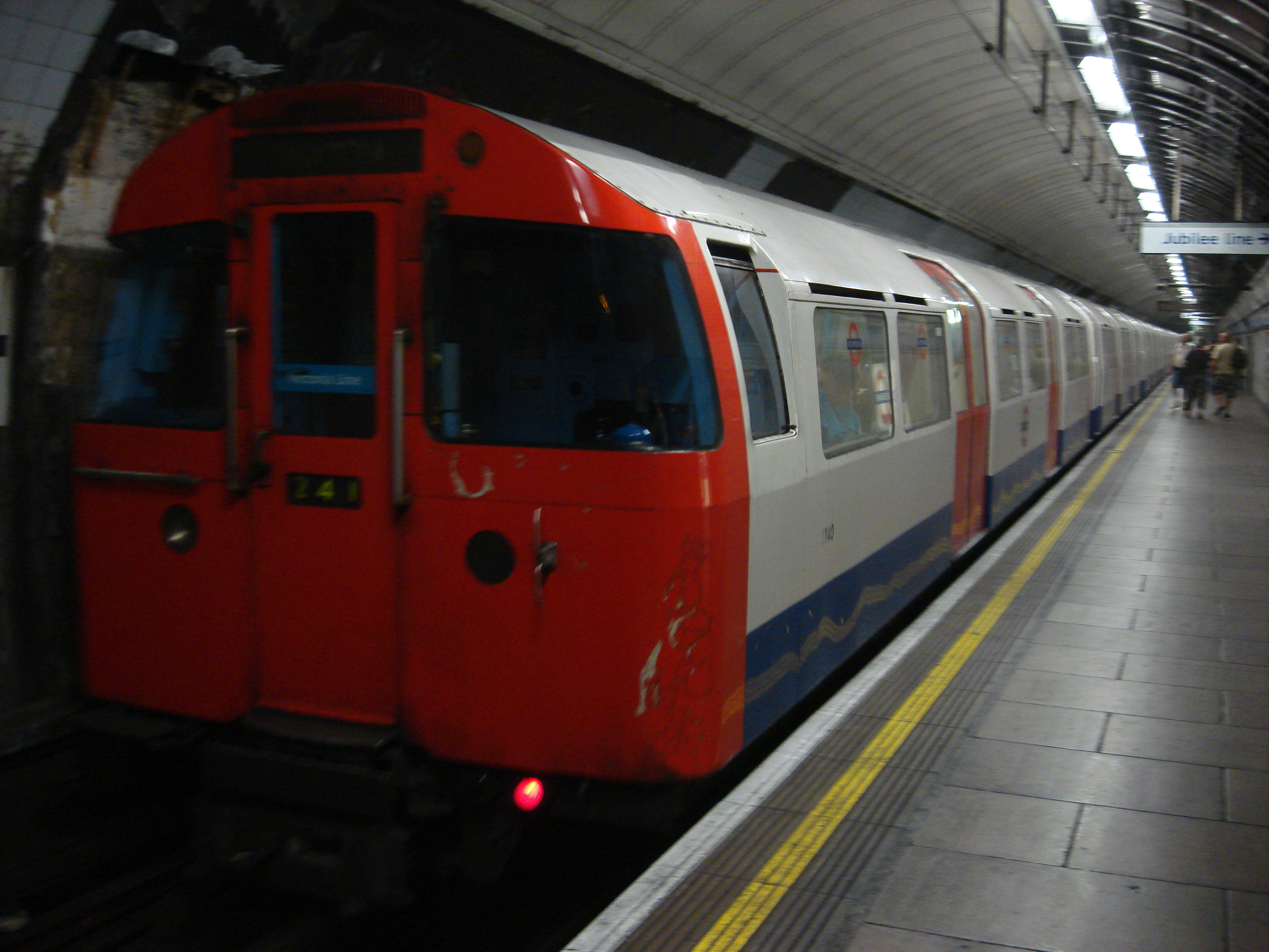 London Underground 1967 Stock at Green Park tube station